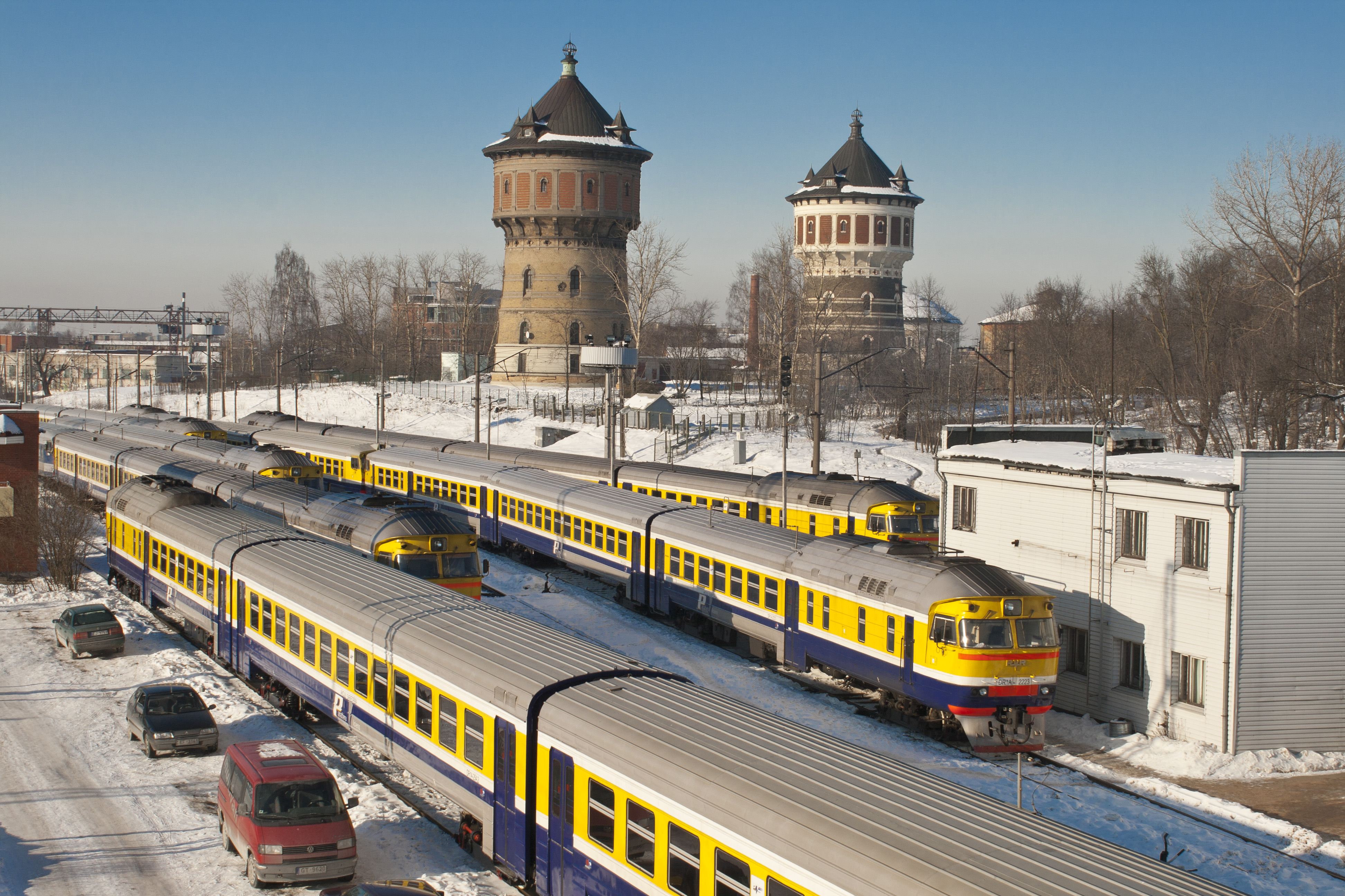 Twin watertowers in Riga and Vagonu parks station